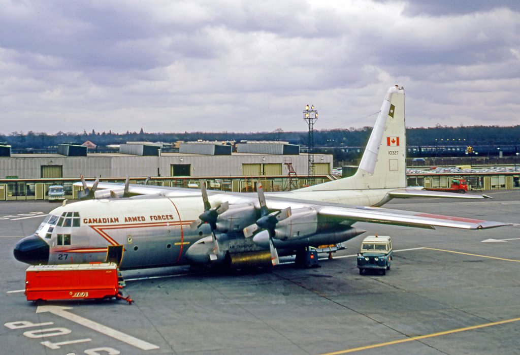 Lockheed C-130E Hercules 10326 of 436 Squadron Canadian Armed Forces at London Gatwick Airport in 1970